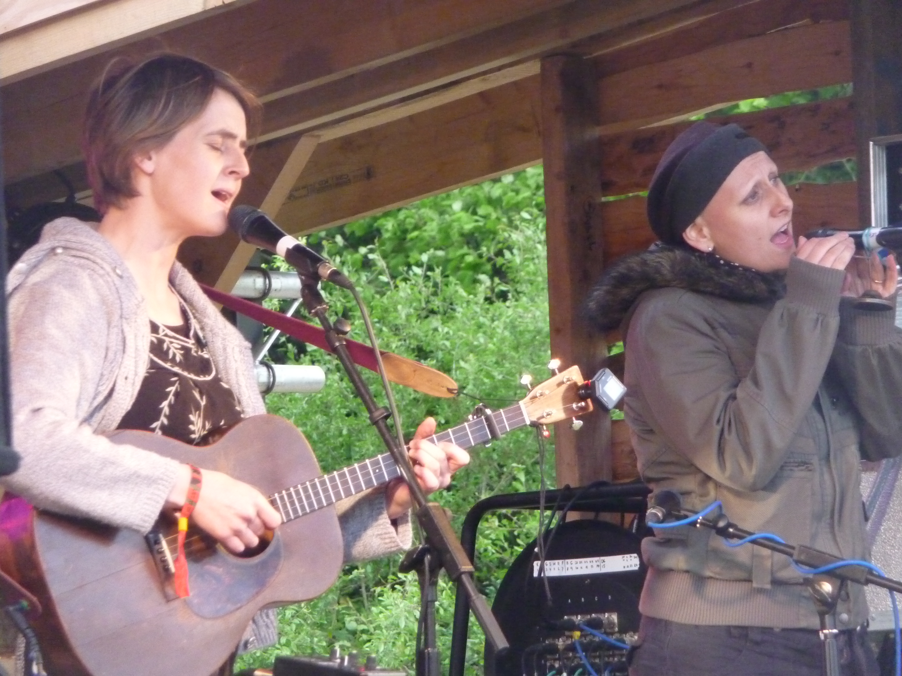 Karine Polwart (left) performing at Wood, Braziers Park, Ipsden, Oxfordshire, England